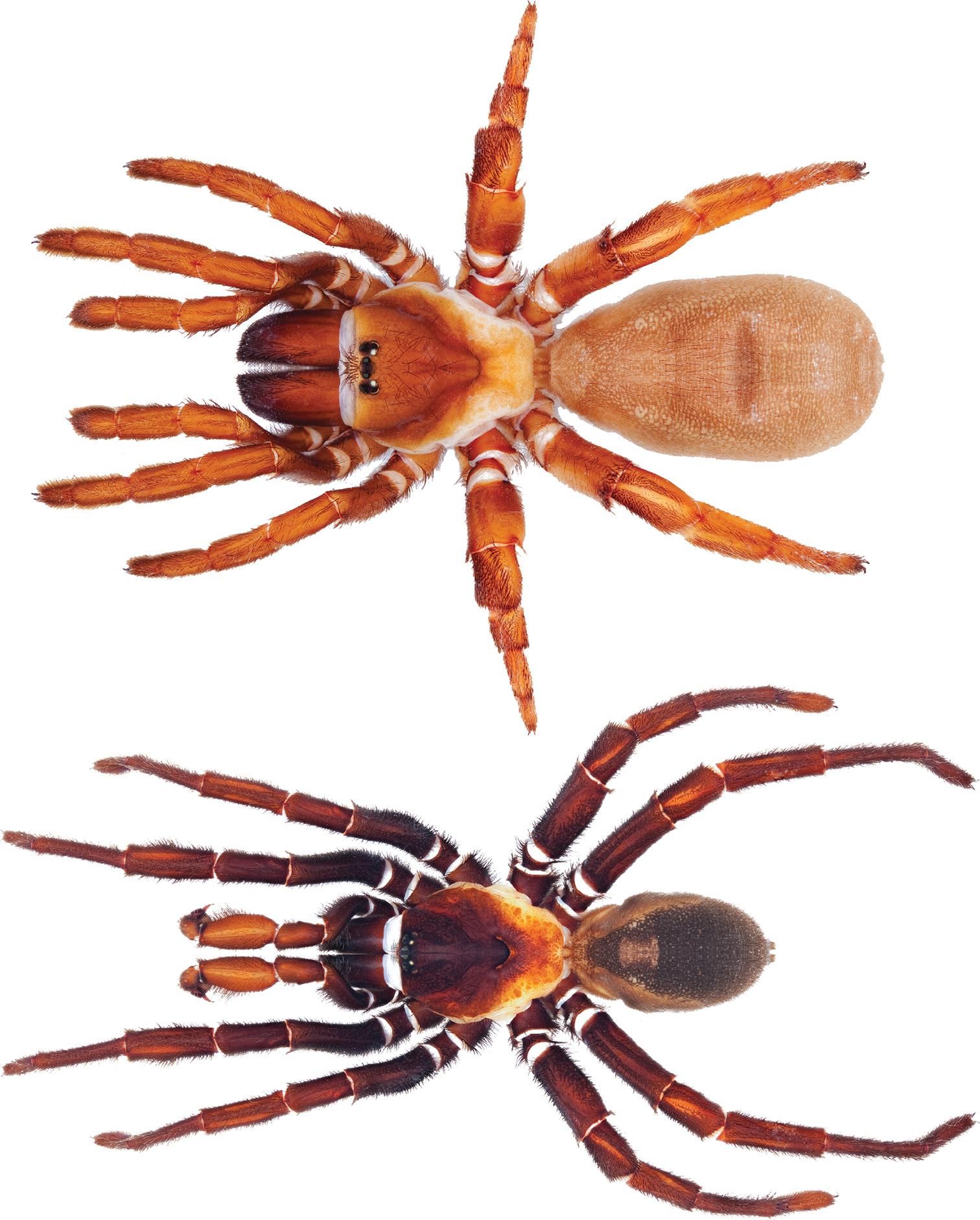 Eucteniza relata (O.P.-Cambridge, 1895) from Kingsville, Texas. female (top) and male (lower) habitus illustration. Note: Images were created by mirroring one half of a photographed specimen, resulting in a symmetrical, idealized view.